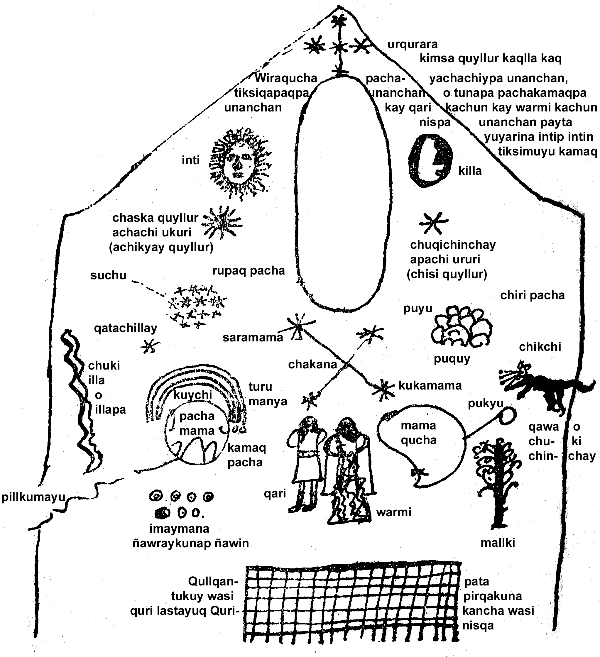 Juan de Santa Cruz Pachacuti Yamqui Salcamaygua: Cosmology of the Inca